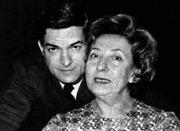 Italian actors Eros Pagni and Lina Volonghi